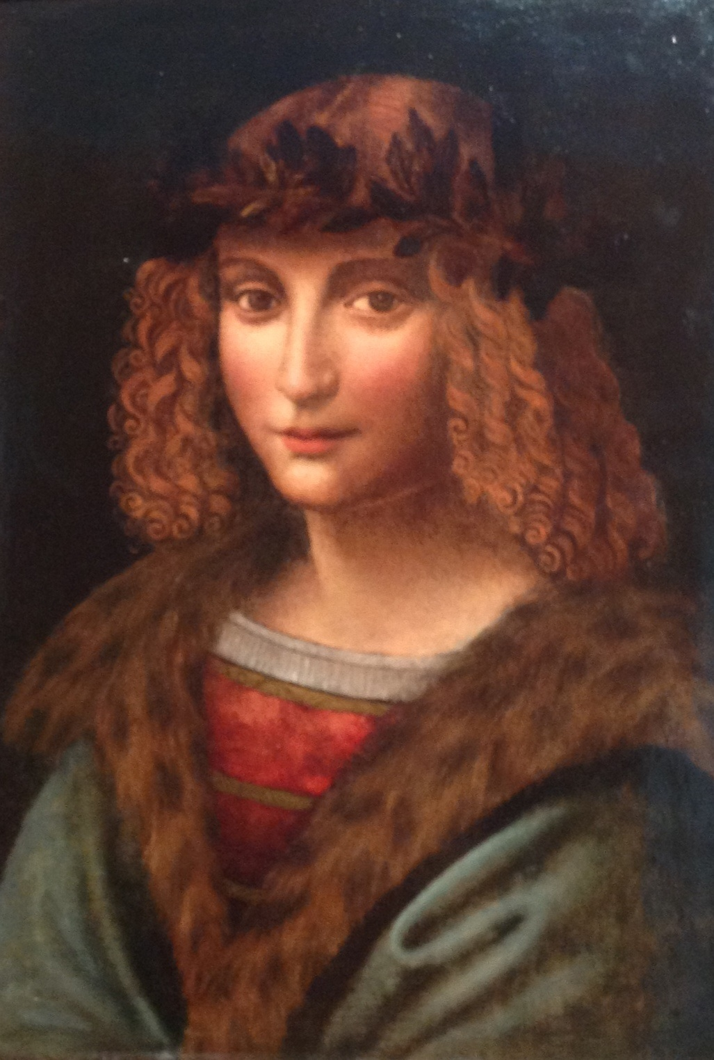 Portrait of Gian Giacomo Caprotti (1480 – 1524), Italian painter, student of Leonardo da Vinci